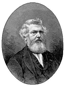 Pieter Harting (1812-1885), Dutch microscopist, biologist, paleontologist, hydrologist and geologist.